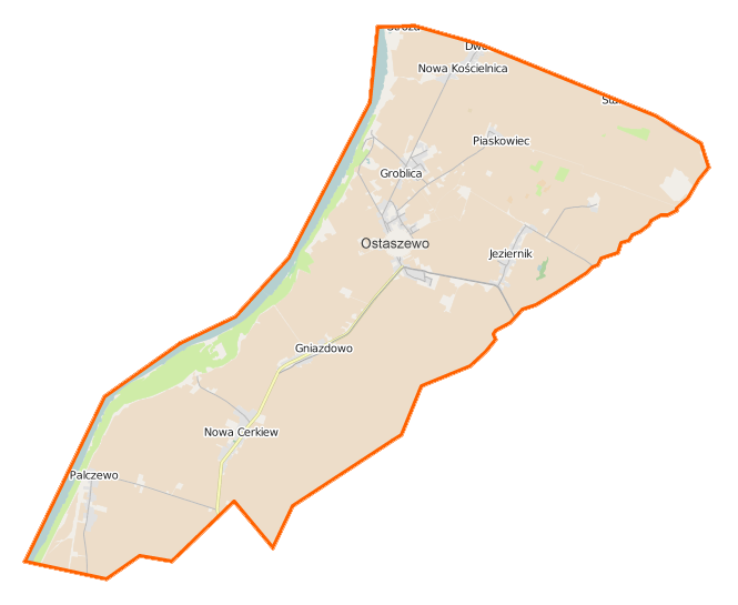 Map of Gmina Ostaszewo, Poland This map of Ostaszewo (gmina) was created from OpenStreetMap project data, collected by the community. This map may be incomplete, and may contain errors. Don't rely solely on it for navigation.